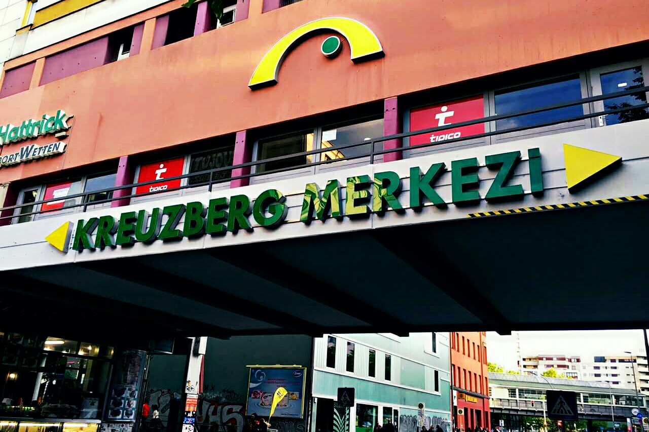 A symbolic sign near the entrance to Kreuzberg written in the Turkish language: “Kreuzberg Merkezi” (Kreuzberg Centre). The building is a residential and commercial complex.